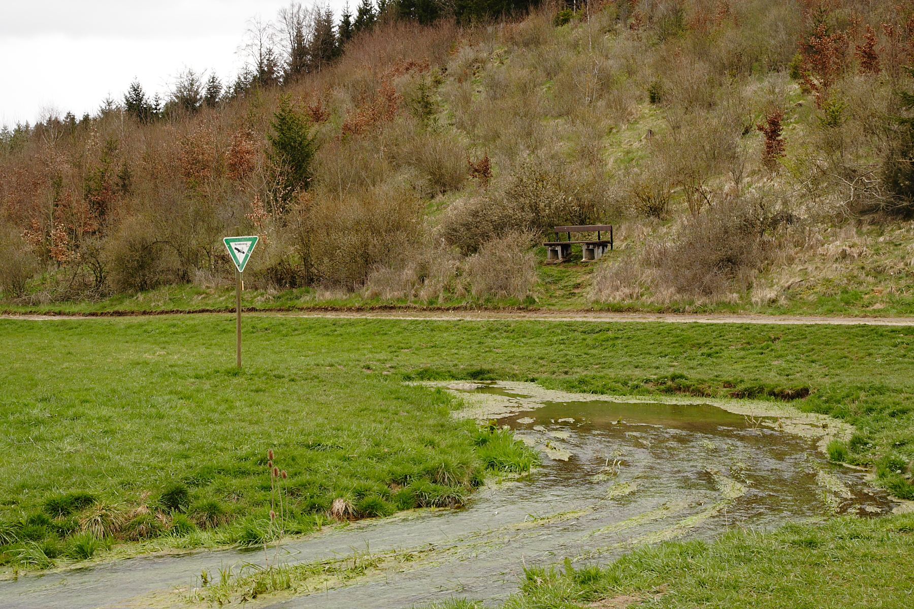 "Hungerbrunnen", a karst spring,running episodically - in rainy years only, Swabian Alb. The water exits from a flat, former floodplain, now a dry Valley with the same name as the spring itself. In the 20th century water emerged about 30 times only.